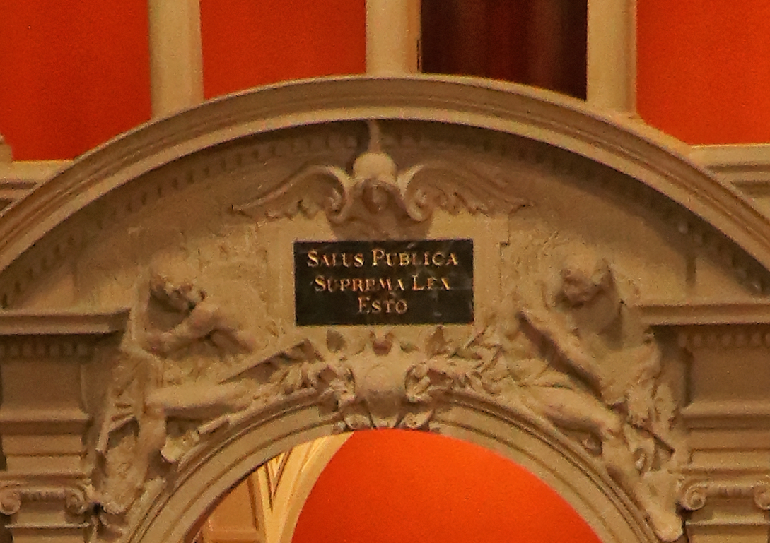 Latin maxim Salus publica suprema lex esto, "The common good is the supreme law", in the domed hall of the Federal Palace of Switzerland.